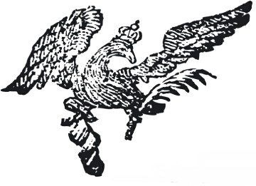 Logo from the original prussian's newspaper (1743)